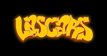 the Lascars French cartoon's logo